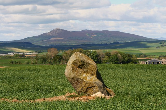 Bennachie from the east, north of Inverurie, Aberdeenshire